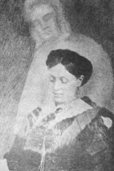 Alleged spirit photograph of Emma Hardinge Britten taken by William H. Mumler.